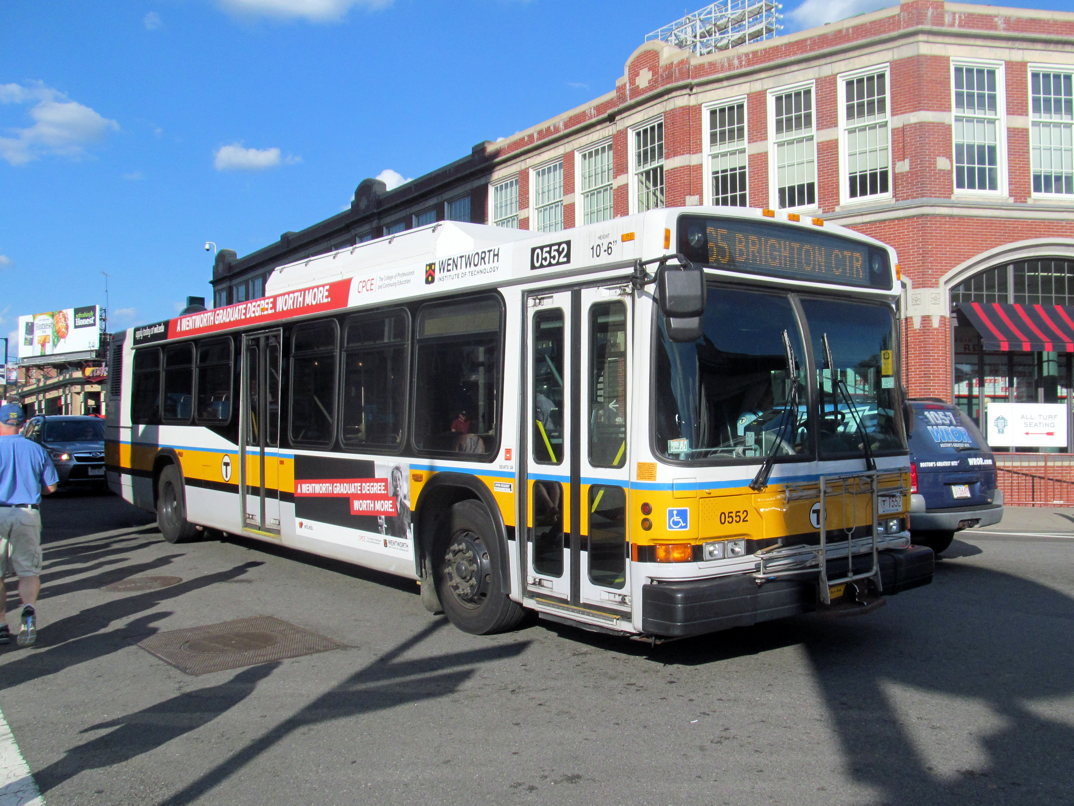 An MBTA bus on route 65 near Yawkey station in August 2016